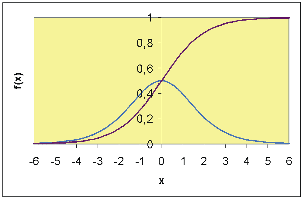 Logistic distribution function and density function with expectation 0 and variance 0.82